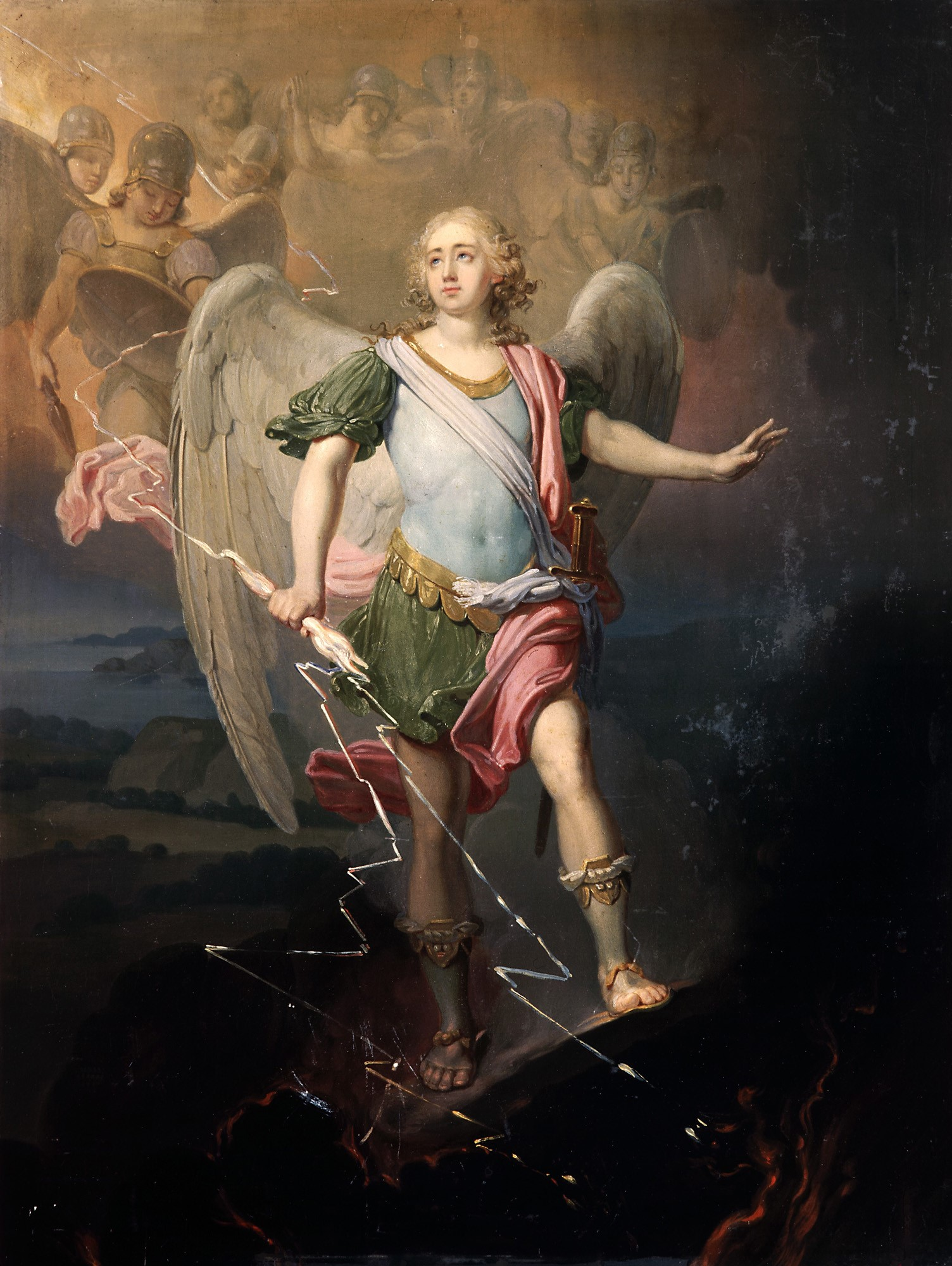 The Archangel Michael. Icon.